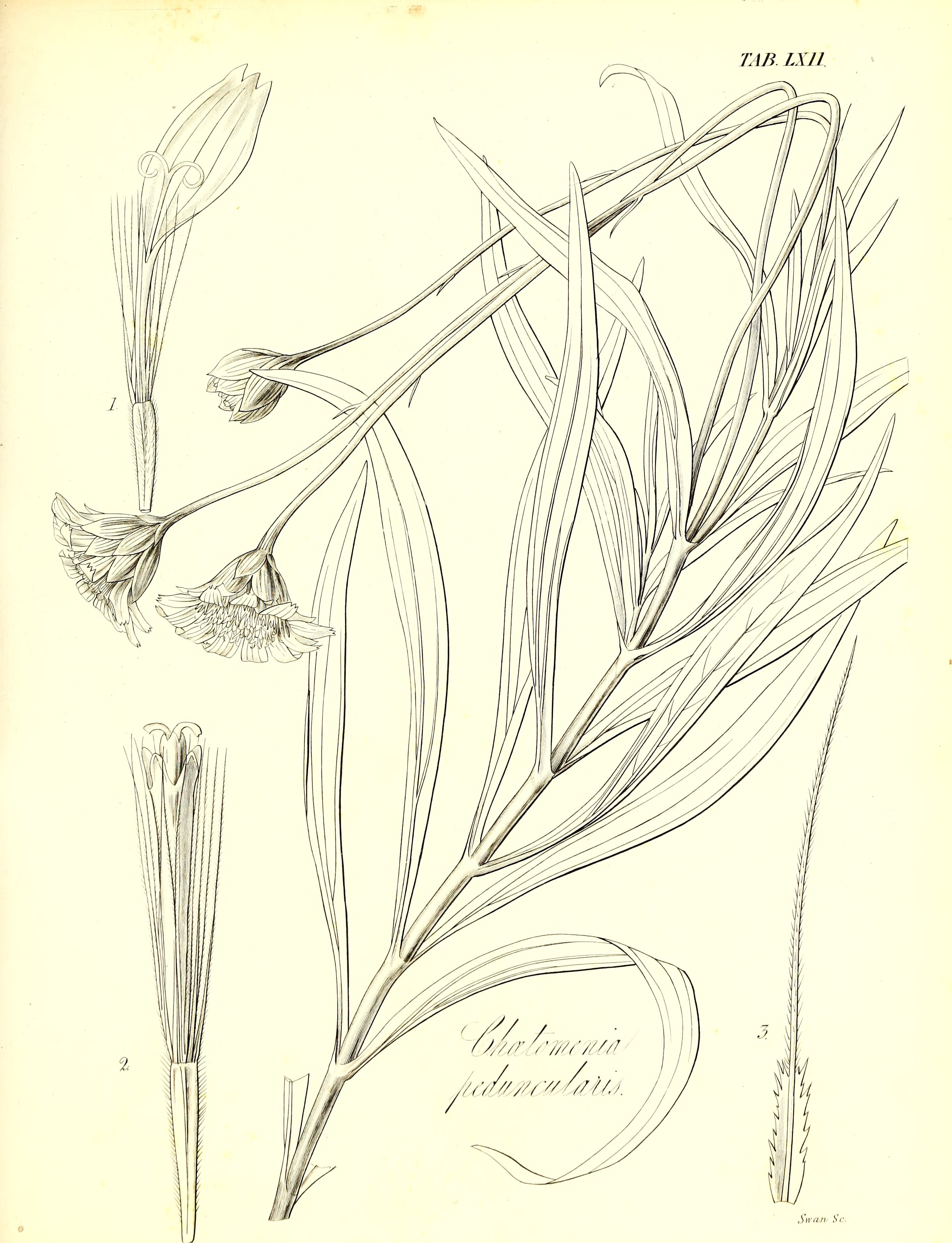 Title: The botany of Captain Beechey's voyage; comprising an acount of the plants collected by Messrs. Lay and Collie, and other officers of the expedition, during the voyage to the Pacific and Behring's Strait, performed in His Majesty's ship Blossom, under the command of Captain F. W. Beechey ... in the years 1825, 26, 27, and 28 Year: 1841 (1840s) Authors: Hooker, William Jackson, Sir, 1785-1865; Arnott, George Arnott Walker, 1799-1868, joint author; Beechey, Frederick William, 1796-1856 Subjects: Blossom (Ship); Botany; Botany; Botany Publisher: London, H. G. Bohn Text Appearing Before Image: ' Text Appearing After Image: '